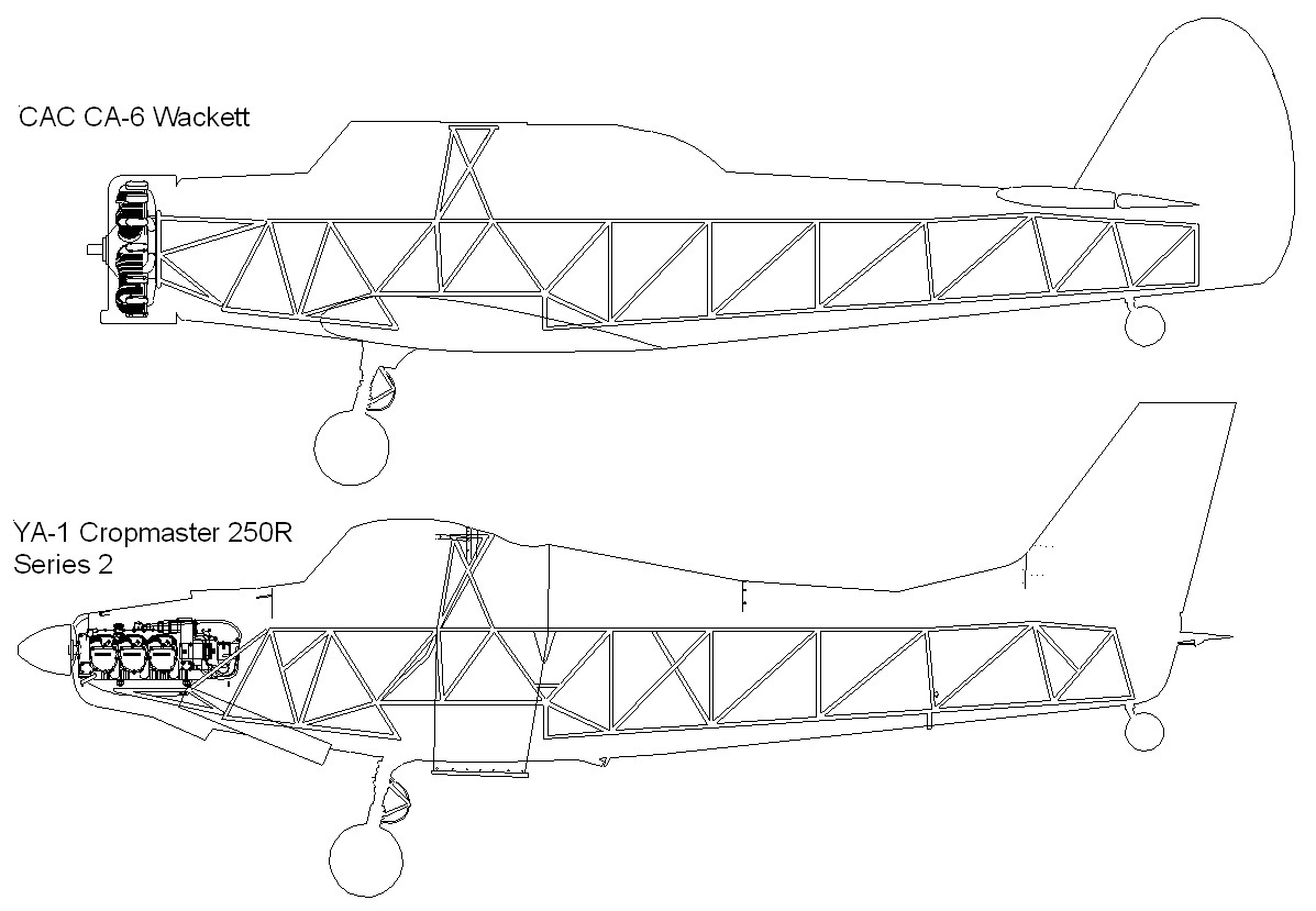 Comparison of the CAC CA-6 Wackett and Yeoman YA-1 Cropmaster 250R aircraft built using the same welded steel tube fuselage frame.